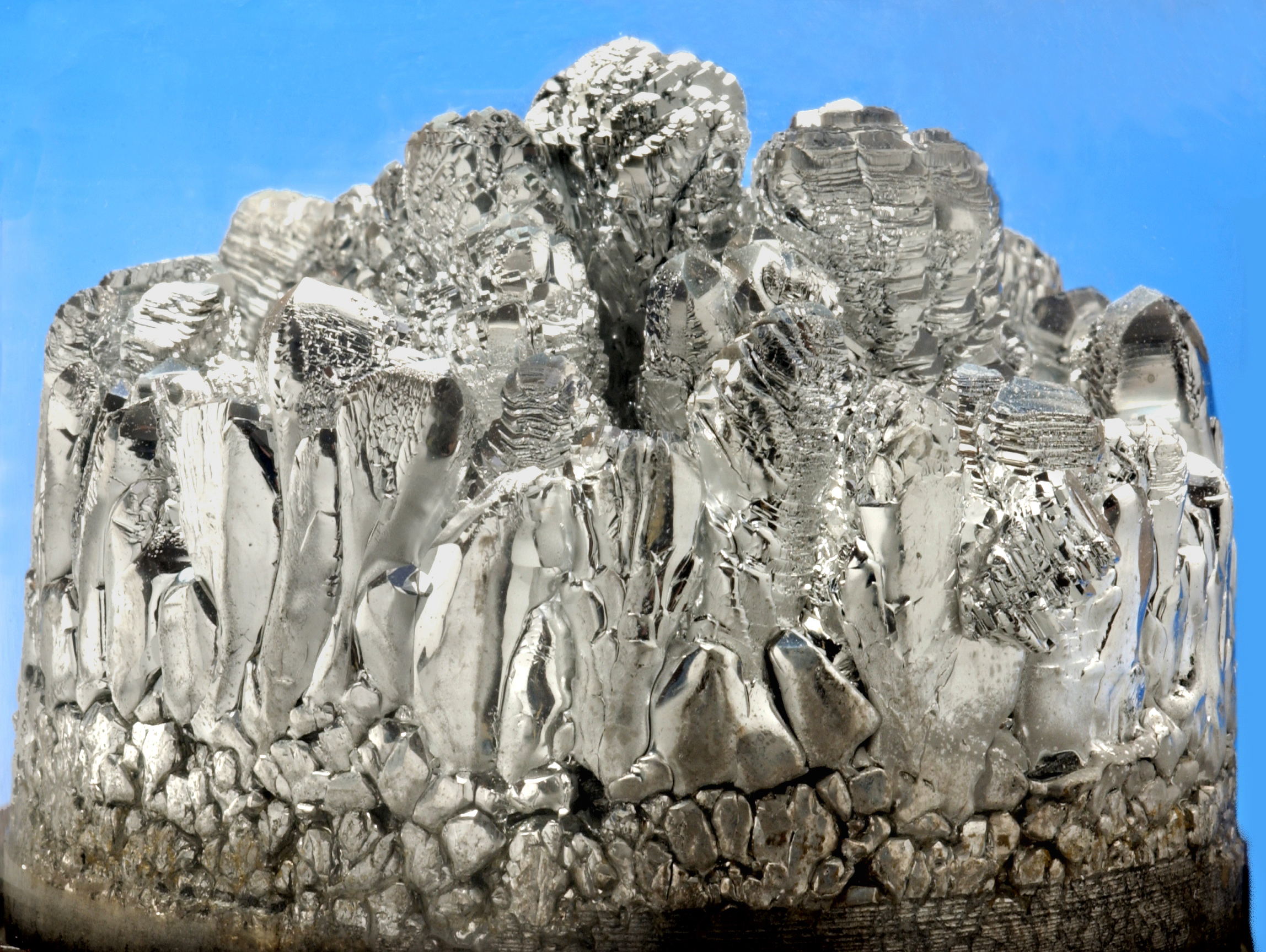 Crystalised magnesium